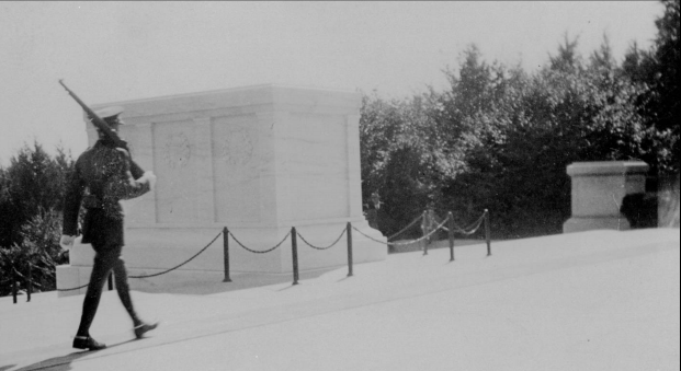 A Trooper of the 3rd Cavalry Regiment stands guard at the Tomb of the Unknowns. He is distinguishable from the 3rd Infantry Regiment because of the spurs he wears.